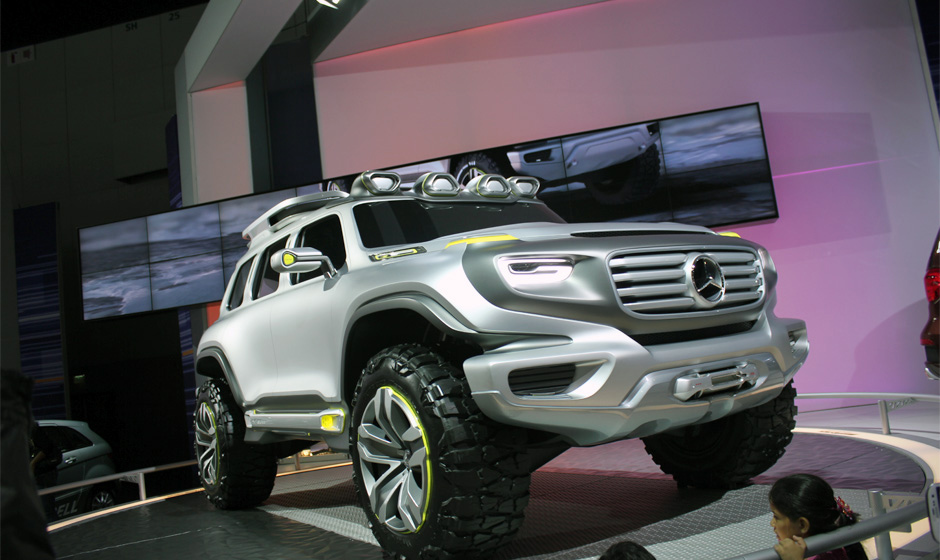 LA Auto Show 2012